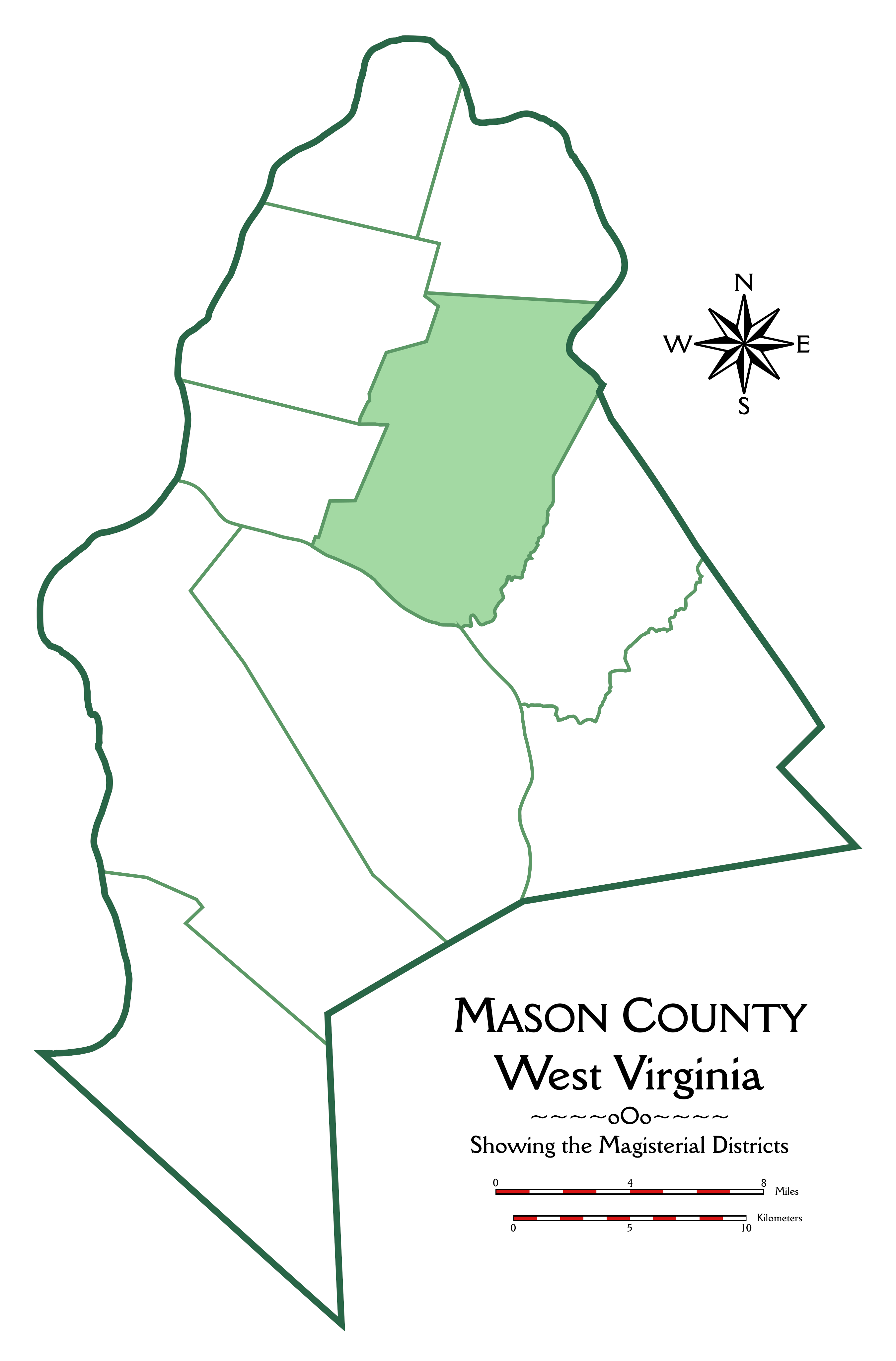 This is an outline map of Mason County, West Virginia, showing the boundaries of the magisterial districts. Cooper District is highlighted.